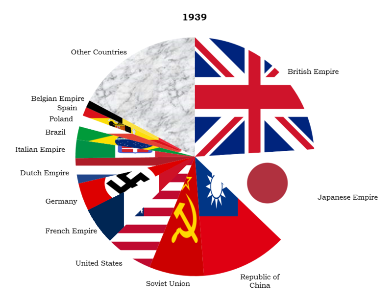 A pie chart showing percentage of global population divided by country in 1939.